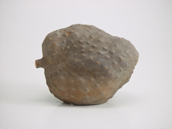 Moche Chirimoya. 200 B.C. Larco Museum Collection. Lima, Peru. Free Use.